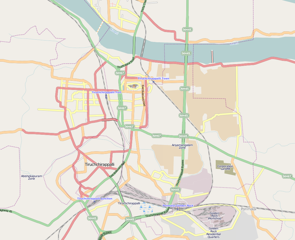 Map of Tiruchchirappalli